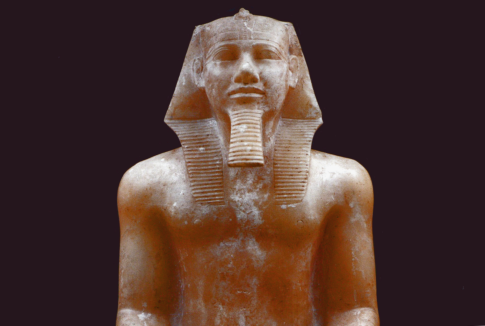 Statue of pharaoh Khafre (Khefren), probably from Memphis, now in the Egyptian Museum, Cairo. Height: 77cm, alabaster with traces of polychrome.